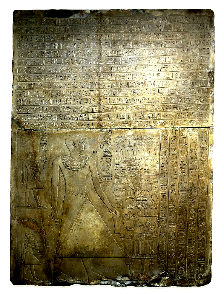 Limestone Stela of Tjetji, Ancient Egypt 11th Dynasty, British Museum